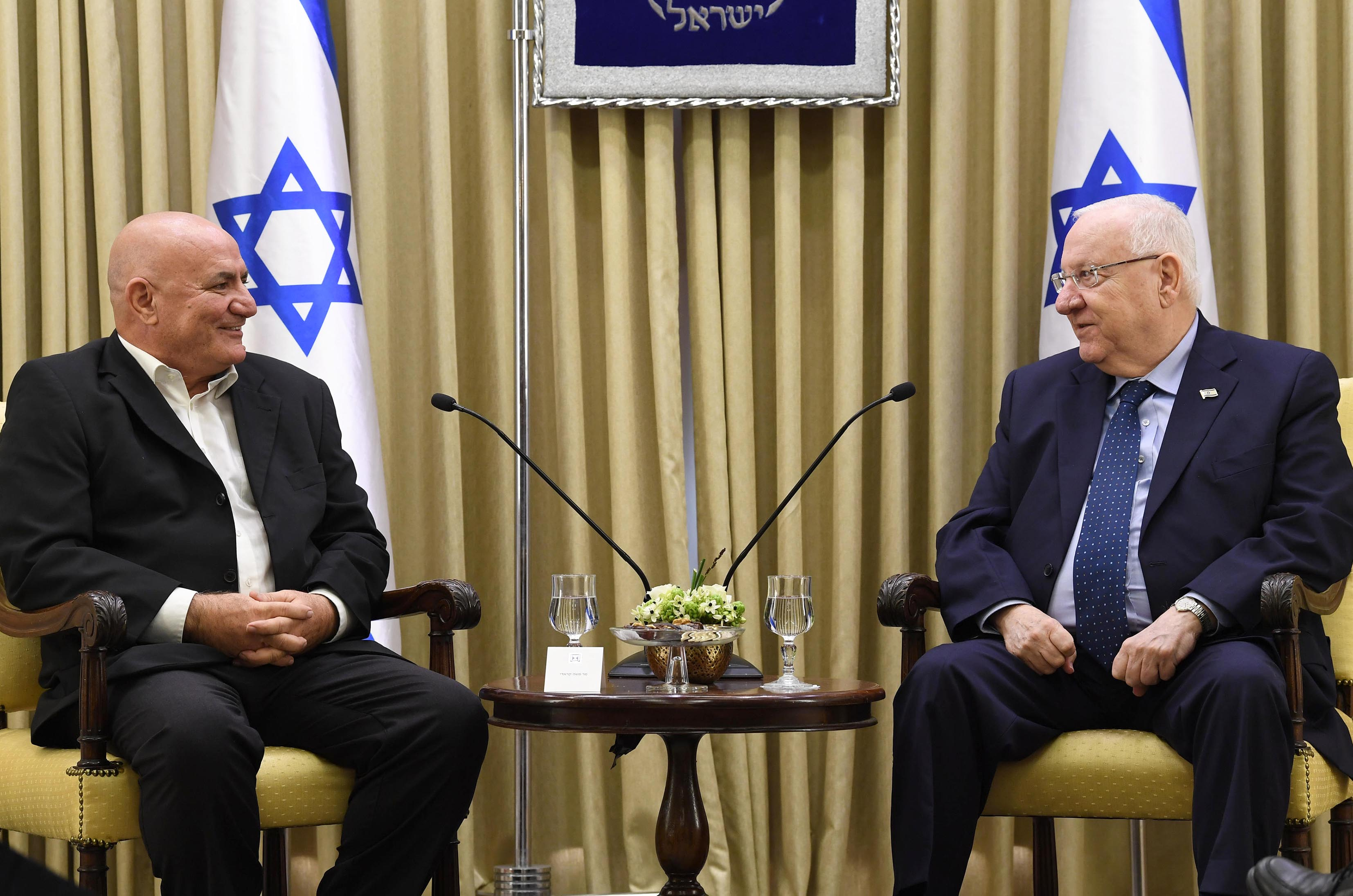 The President of Israel, Reuven Rivlin, hosting the Forum of retired Chiefs of Staff and Retired Veterans of the Israeli Police, in his residence, Monday, 11 Kislev 5769 , November 19, 2018. Photo Credit: Mark Neiman / GPO.